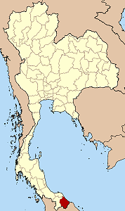 Map of Thailand highlighting Narathiwat province